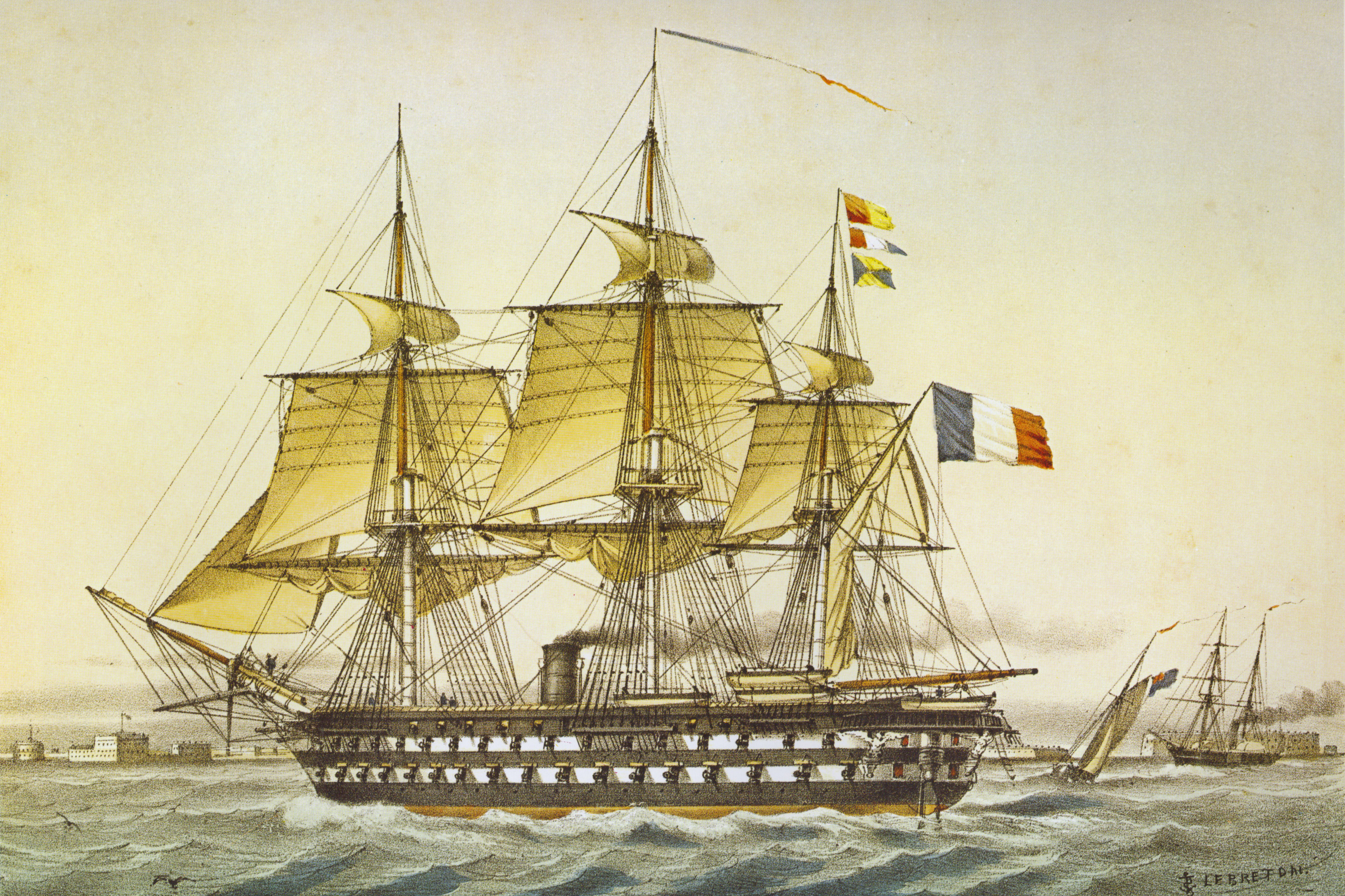 The Austerlitz